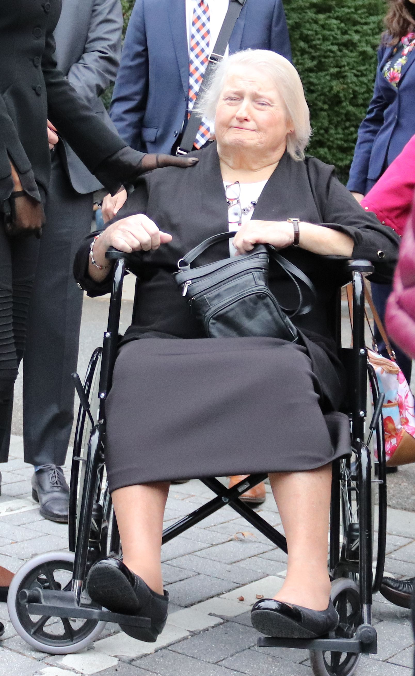 Waiting during evacuation of outdoor plaza and sidewalks due to two suspicious packages before PROTECT LGBTQ WORKERS RALLY at United States Supreme Court along Maryland Avenue between 1st and 2nd Street, NE, Washington DC on Tuesday morning, 8 October 2019 by Elvert Barnes Photography Learn more about the clearing of the plaza in front of the Supreme Court at Follow Tuesday, 8 October 2019 PROTECT LGBT WORKERS RALLY event page at Elvert Barnes Tuesday, 8 October 2019 PROTECT LGBTQ WORKERS RALLY docu-project at